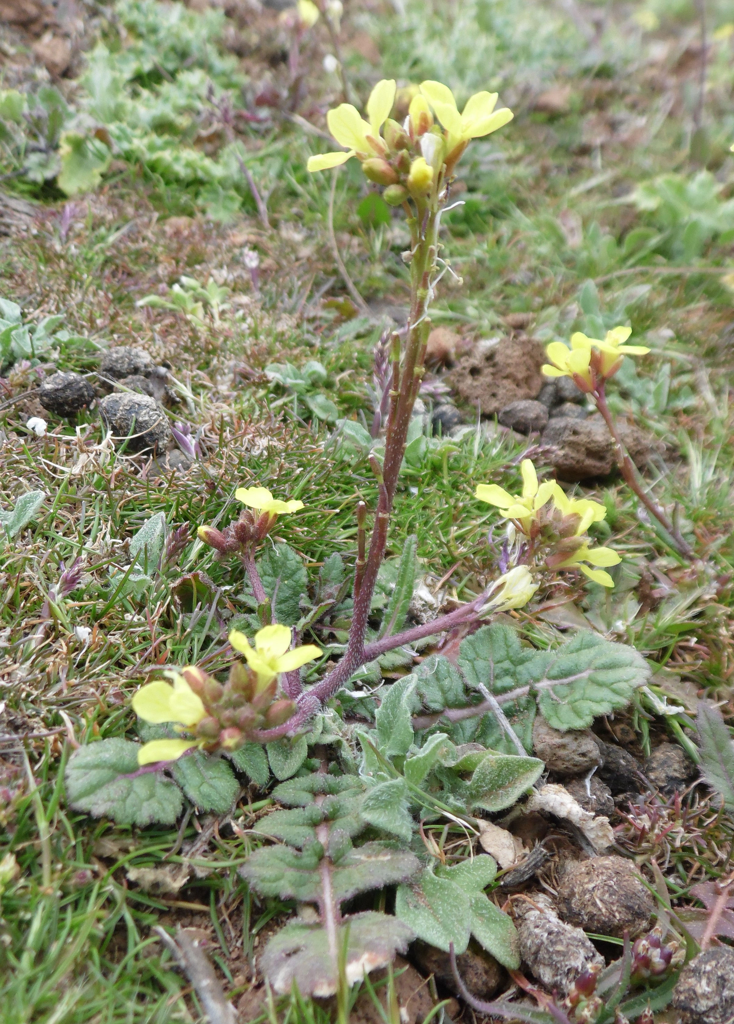 Sinapis pubescens in Los Pechos (near Pico de Nives), Gran Canaria